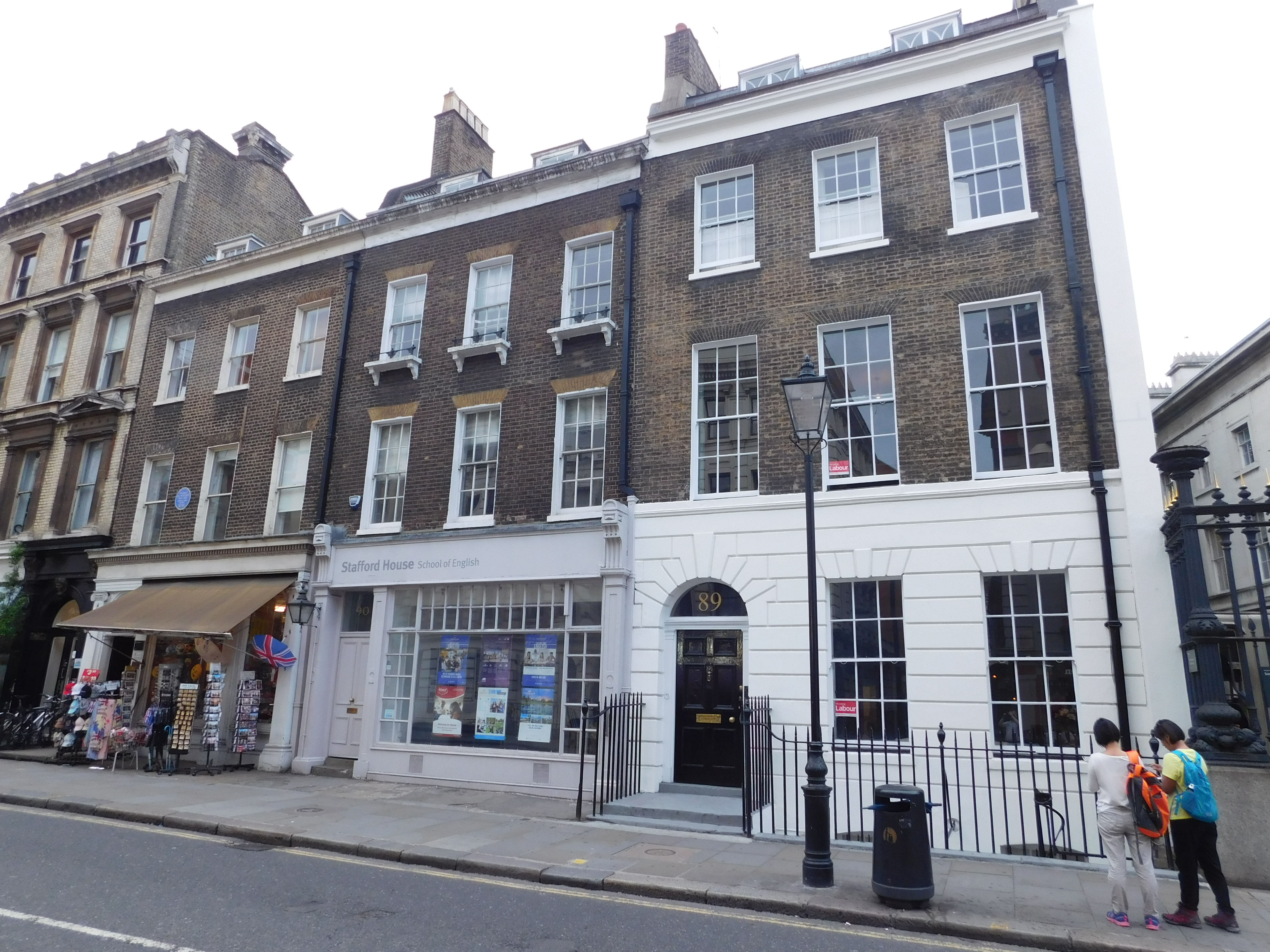 Numbers 89, 90 And 91 And Attached Railings Wikidata has entry Q27084460 with data related to this item.